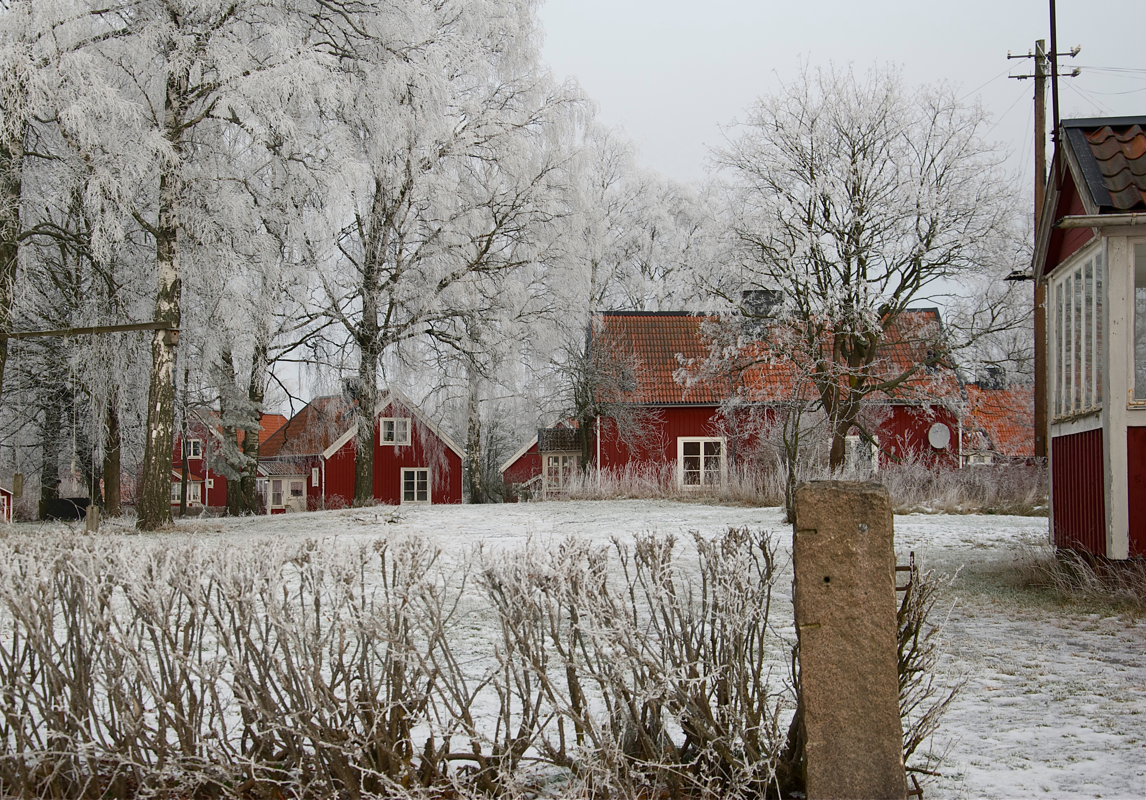 Rödvillorna (red houses) built for workers at Hallsta Paper Mill 1914-15.